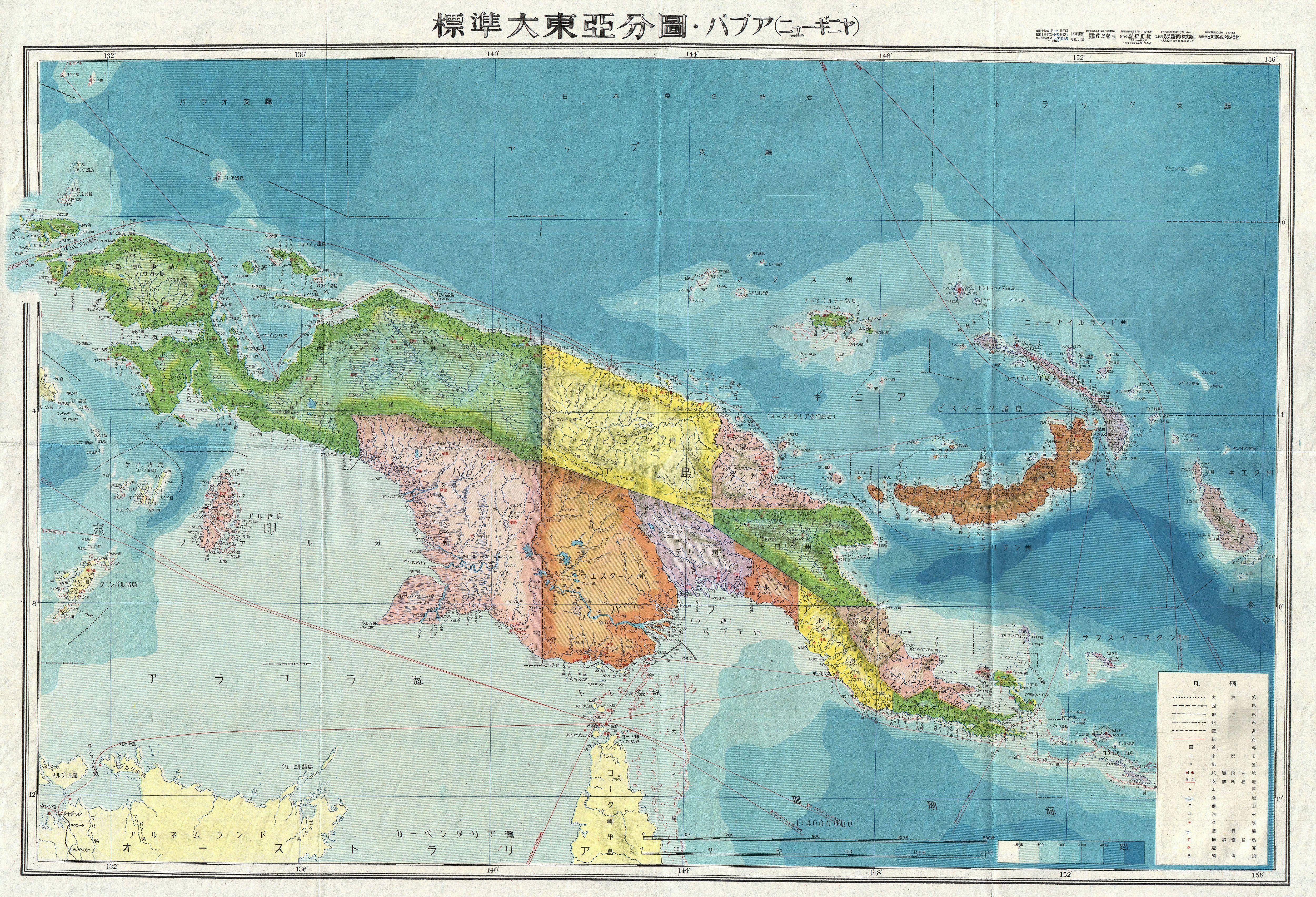 A stunning large format Japanese map of New Guinea dating to World War II. Covers the entirety of the island with color coding according to district. Offers superb detail regarding both topographical and political elements. Notes cities, roads, trade routes on air, sea and land, and uses shading to display oceanic depths. All text in Japanese. While Allied World War II maps of this region are fairly common it is extremely rare to come across their Japanese counterparts. This map was created as map no. 14 of a 20 map series detailing of parts of Asia and the Pacific prepared by the Japanese during World War II.